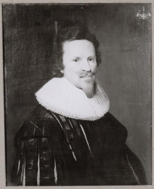 Portret van Alexander van der Capellen (1599-1656)